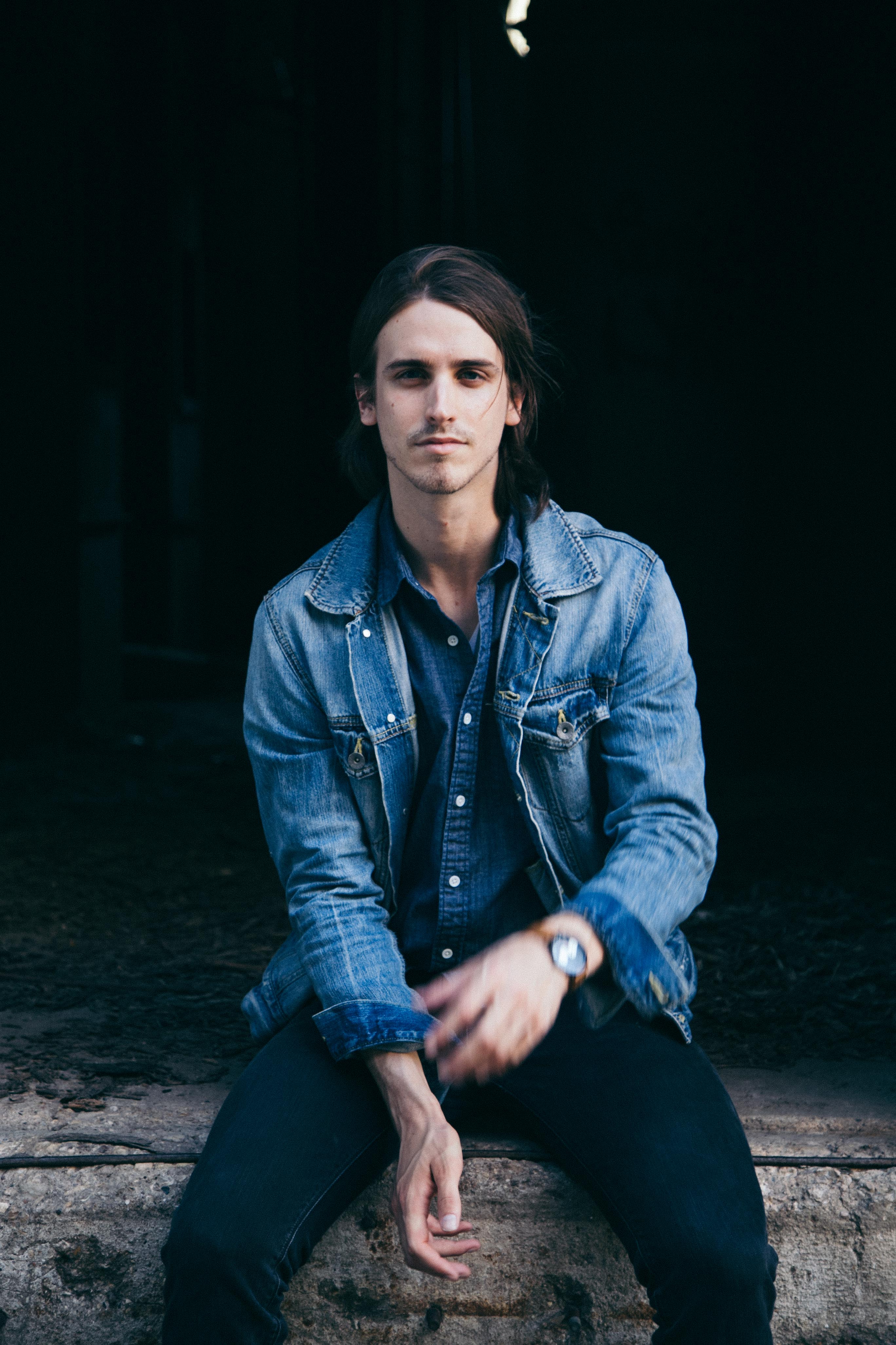 Troy Cartwright